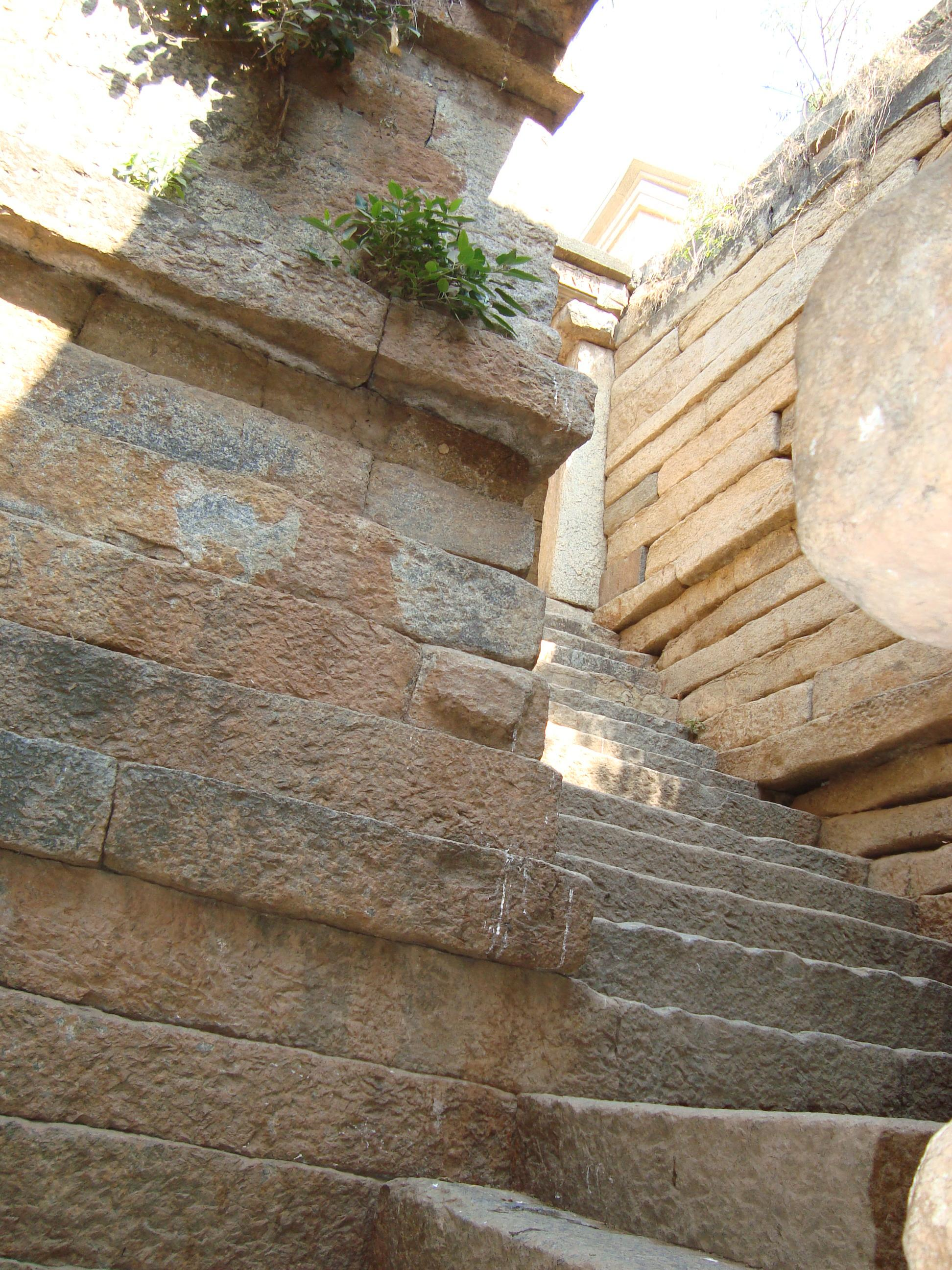 Lakshmeshwara Someshwara temple complex, open well Author and source : Manjunath Doddamani, Gajendragad/Hubli, Karnataka(North), India.